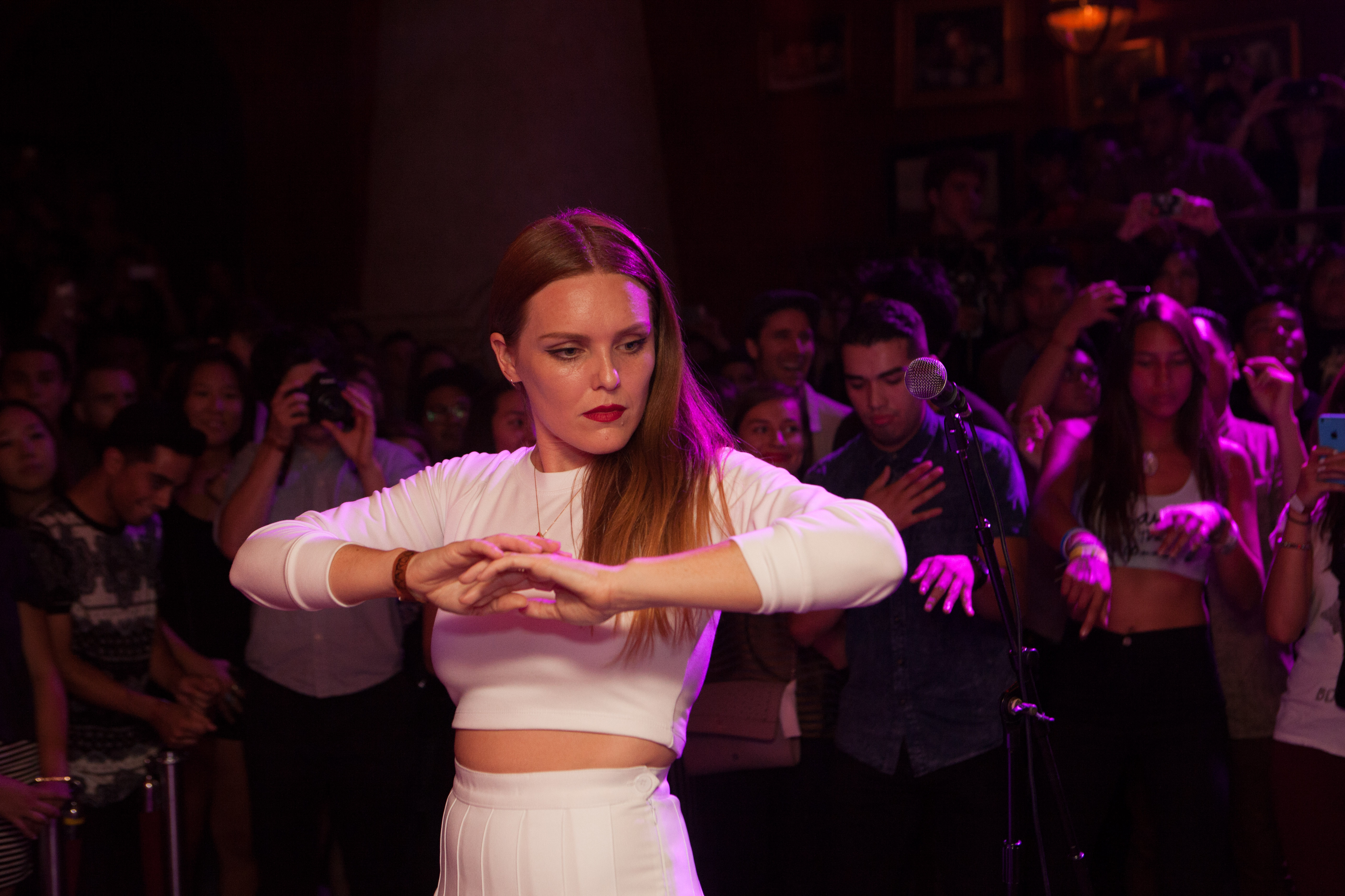 Kelsey Bulkin performing with Made In Heights